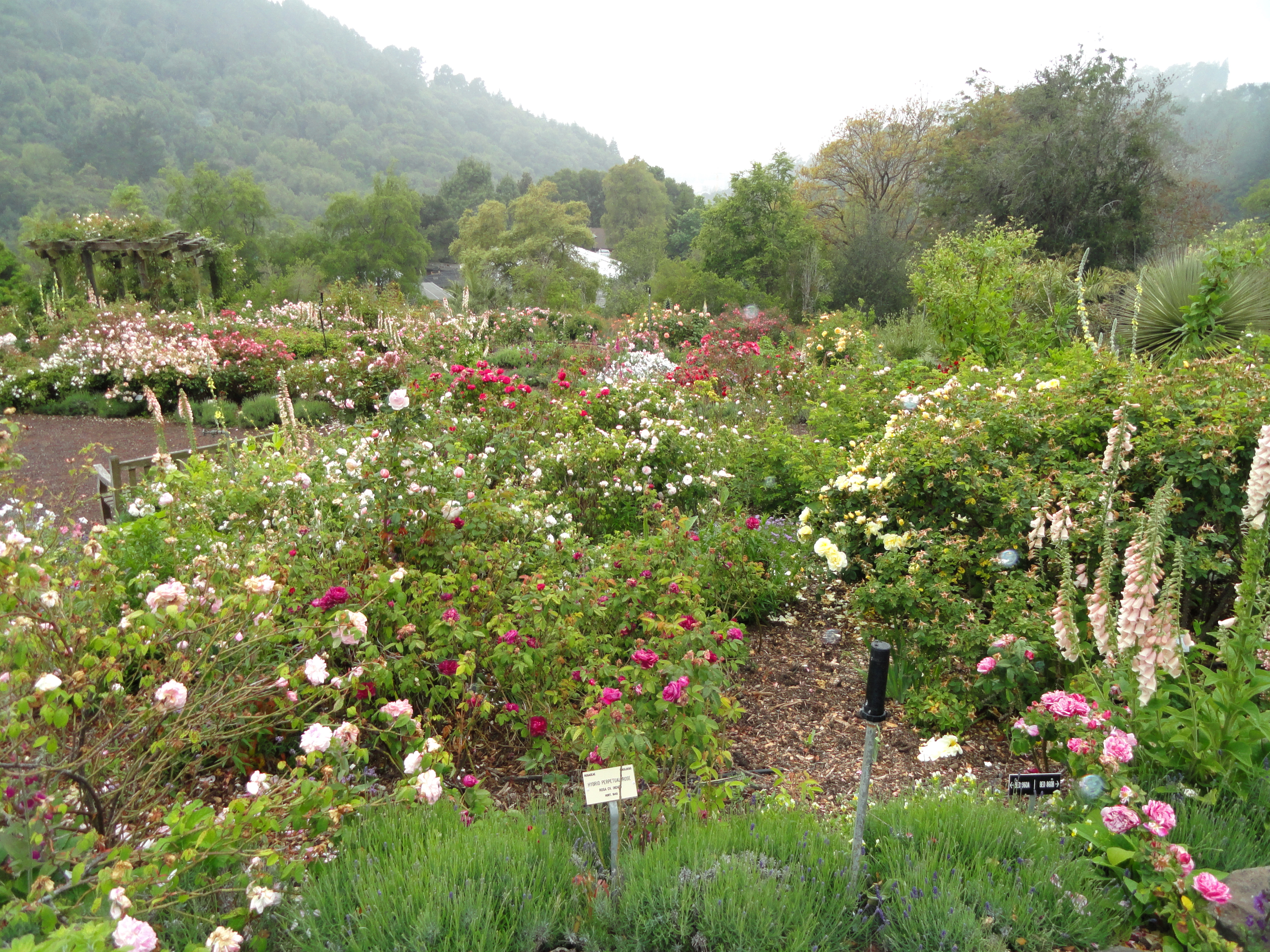 General view of the University of California Botanical Garden, Berkeley, California, USA.